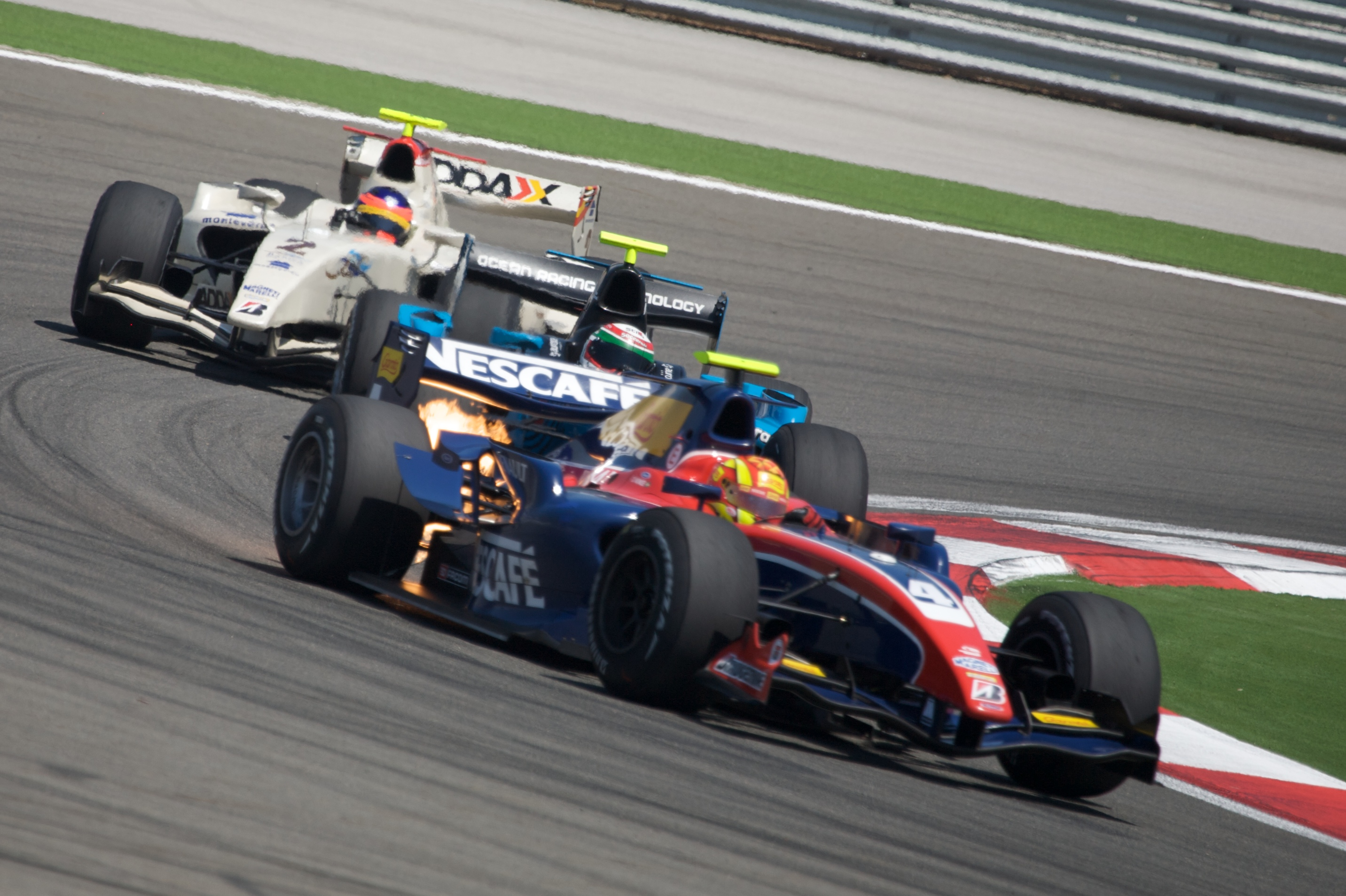 Diego Nunes (iSport International) leads Álvaro Parente (Ocean Racing Technology) and Romain Grosjean (Barwa Addax) at the Turkish round of the 2009 GP2 Series season.